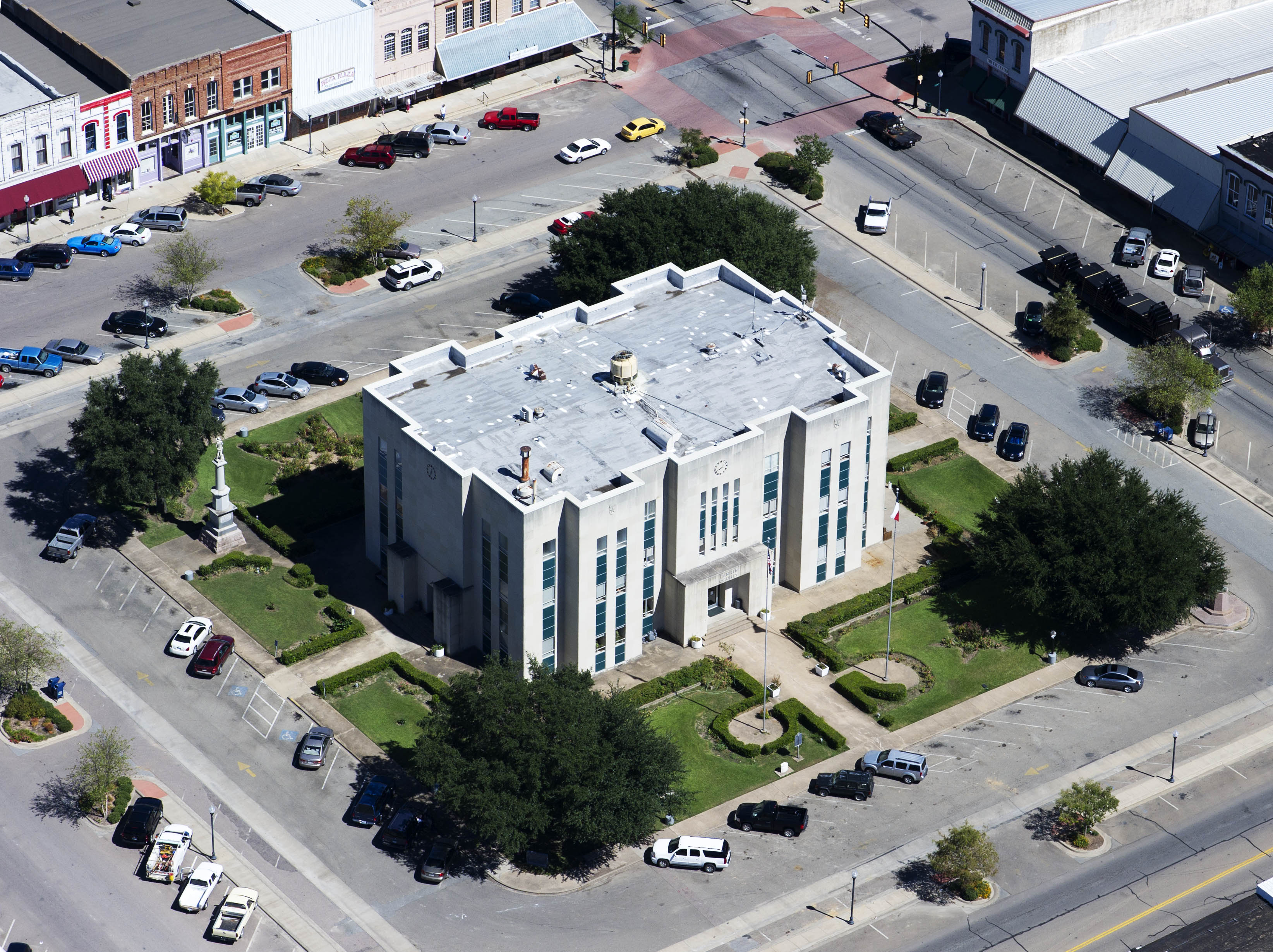 Aerial photo of Fannin County Courthouse, Bonham, Texas